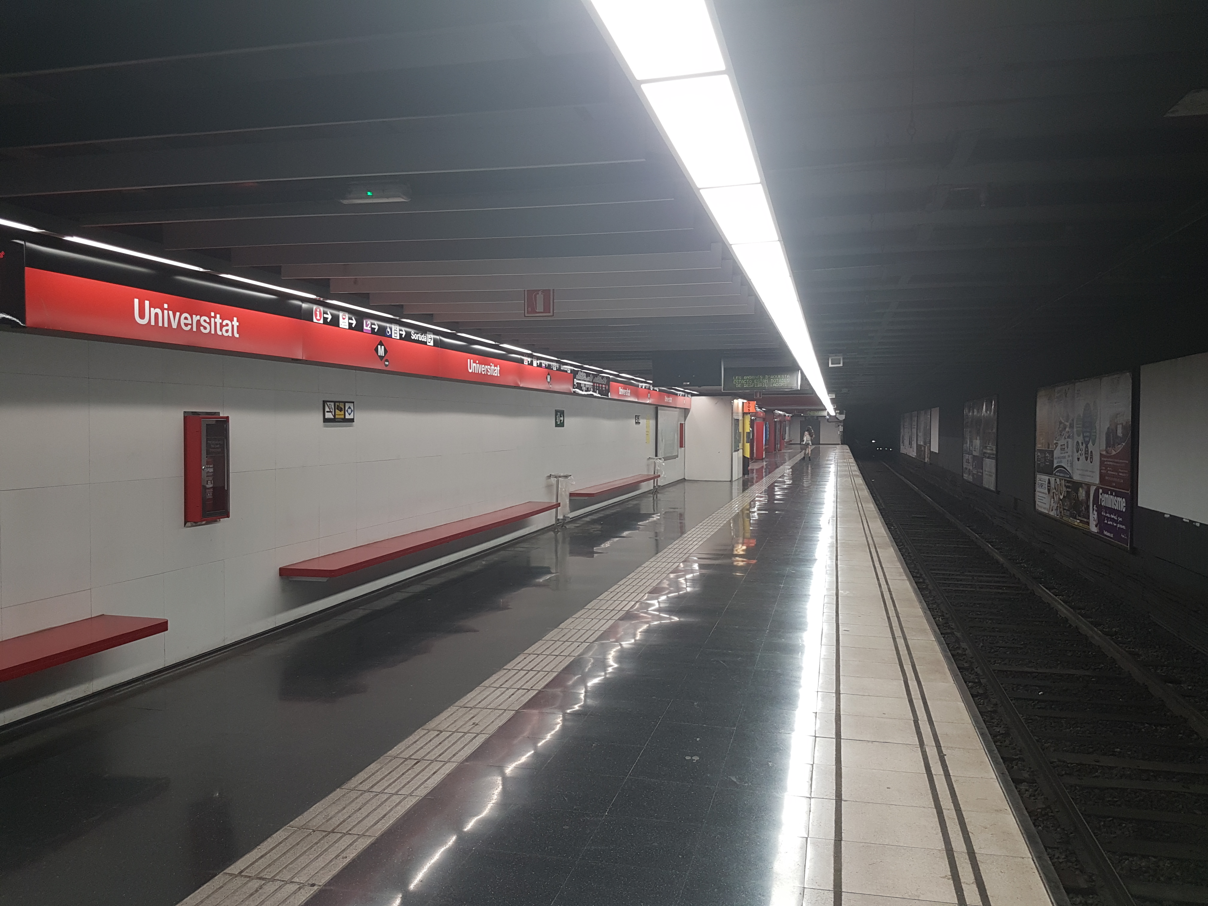 Andana direcció Hospital de Bellvitge de l'estació d'Universitat de la L1